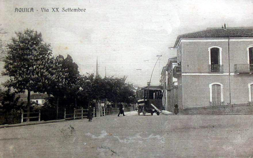 Trolleybus with Cantono-Frigerio-System in Aquila